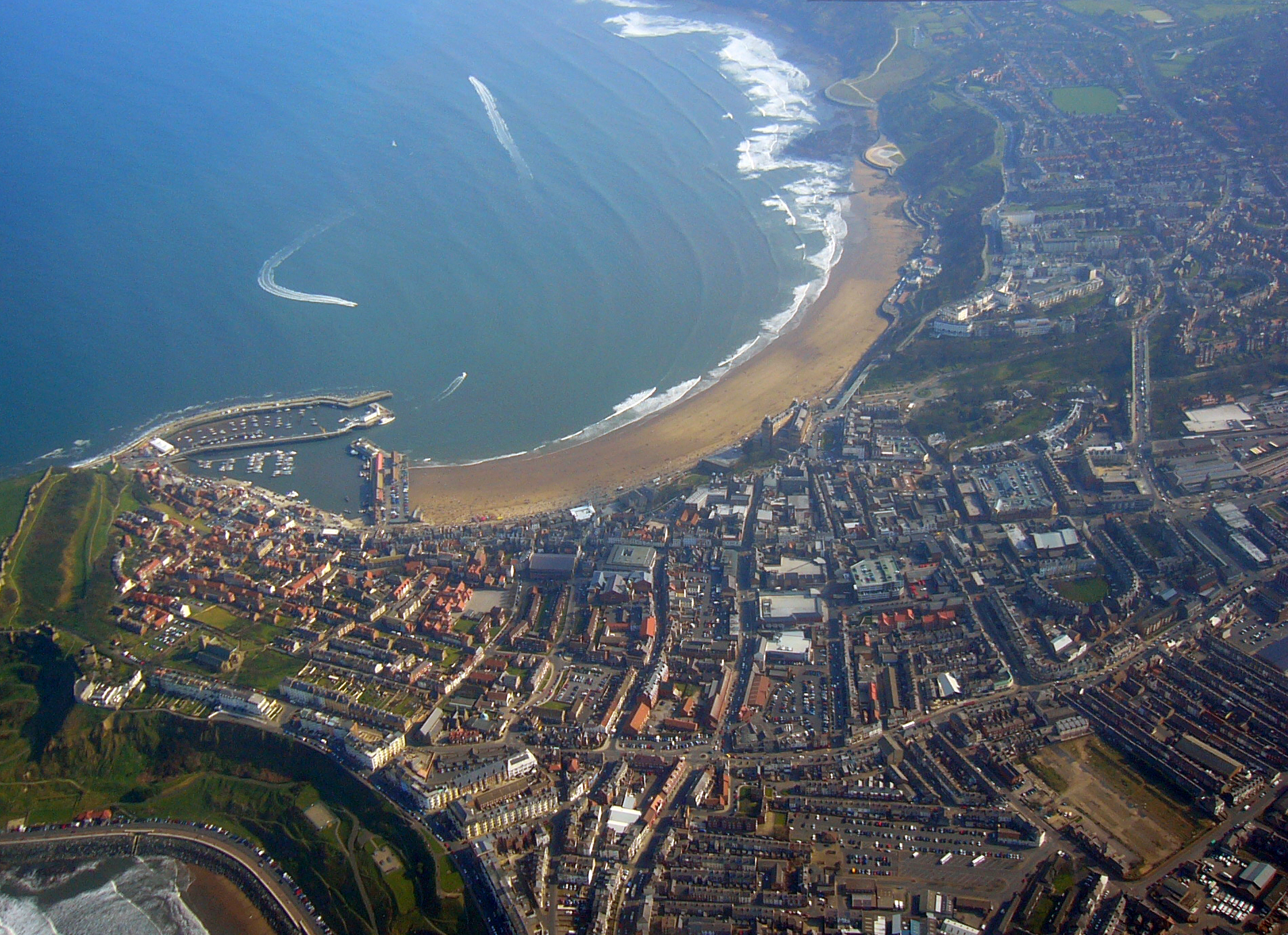 Aerial photo of Scarborough in northeast England.